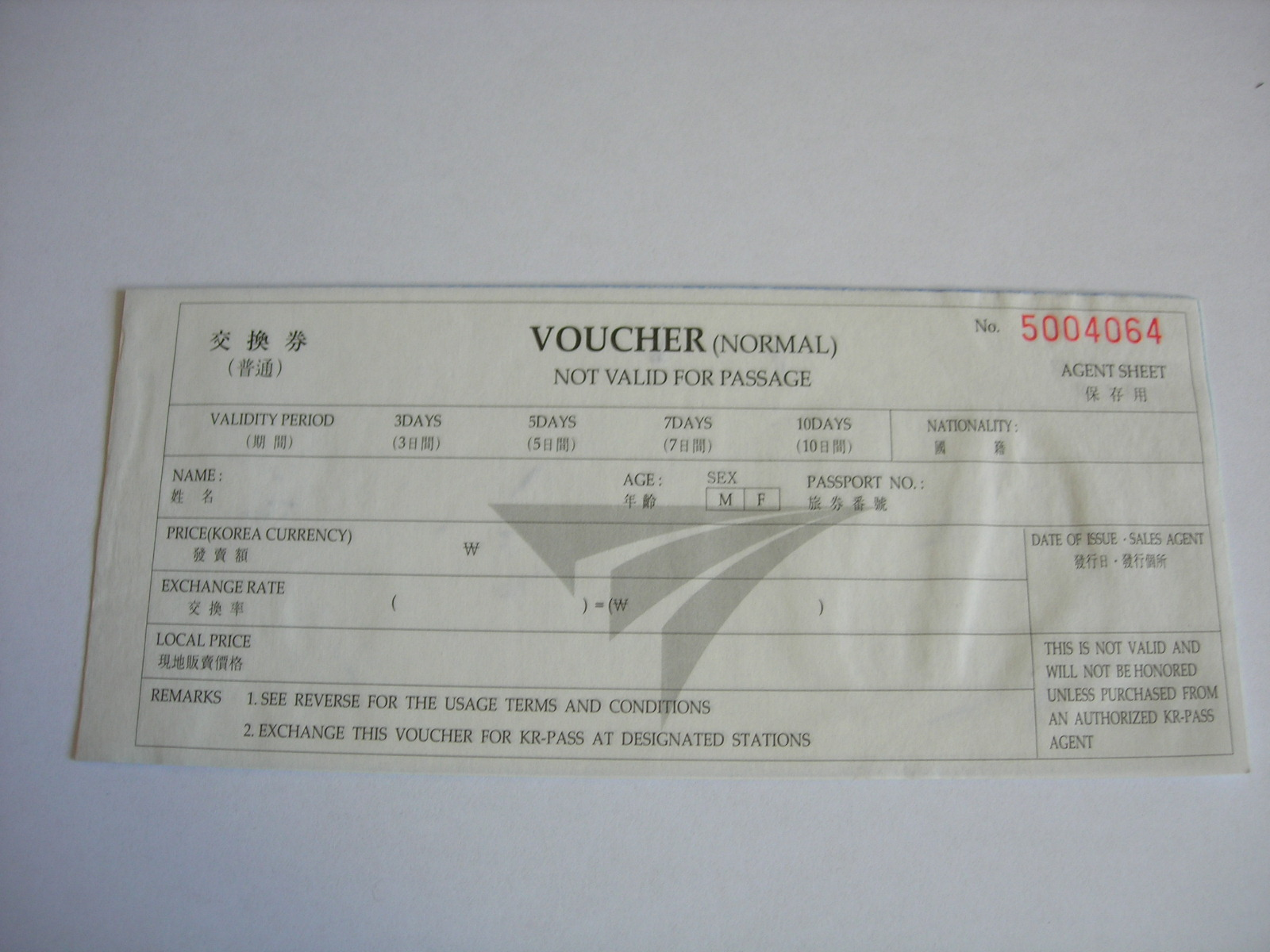 KNR KR Pass voucher.